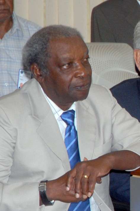 The 1958 FIFA World Cup Champion Moacir Claudino Pinto in Congresso Nacional